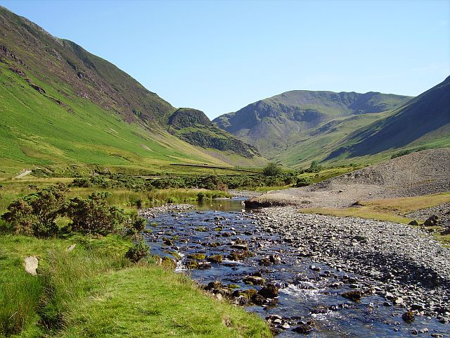 Newlands Beck. Looking up the dale from near the Goldscope Mine. A spoil heap can be seen on the right. Dale Head is the dominant hill. It does what it says on the packet.